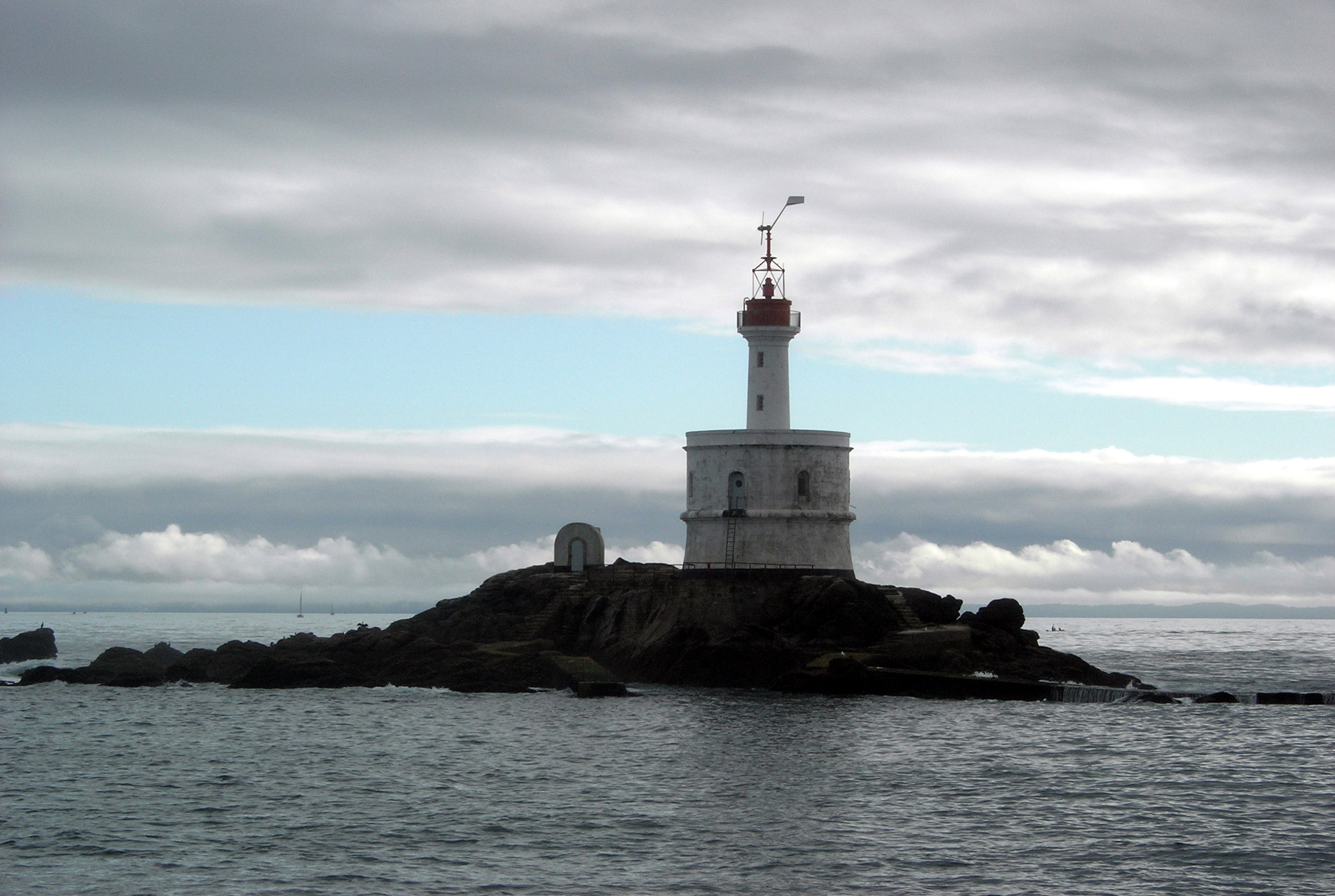 Description =Le phare de la Teignouse Source =Photo taken by Remi Jouan Date =Aout 2006 Author =Remi Jouan